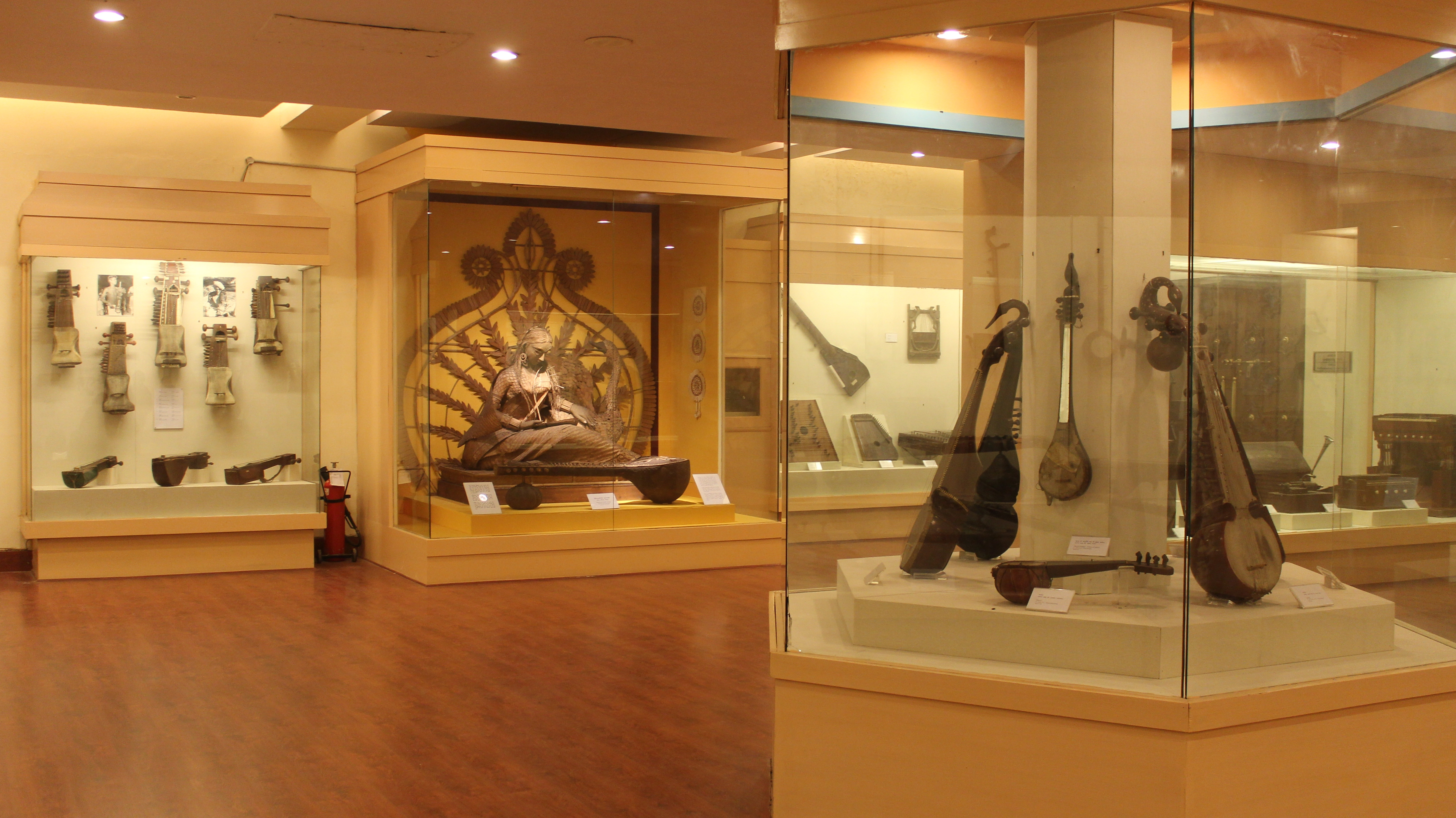 another view of the musical instruments gallery